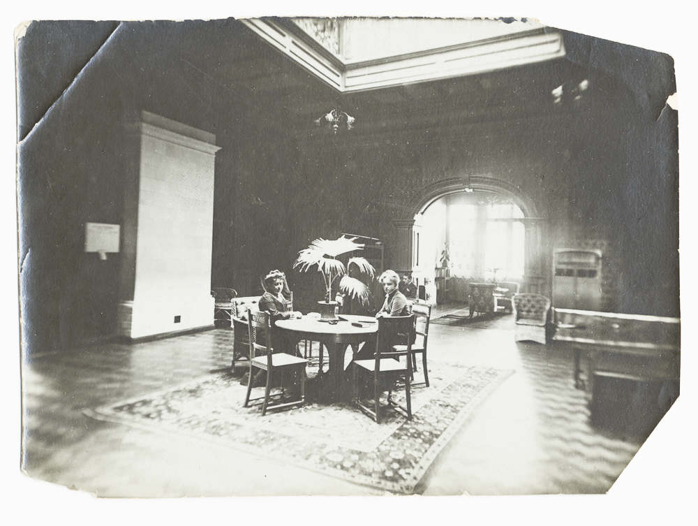 The sitting room of the Hughes family house, Hughesovka, about 1900